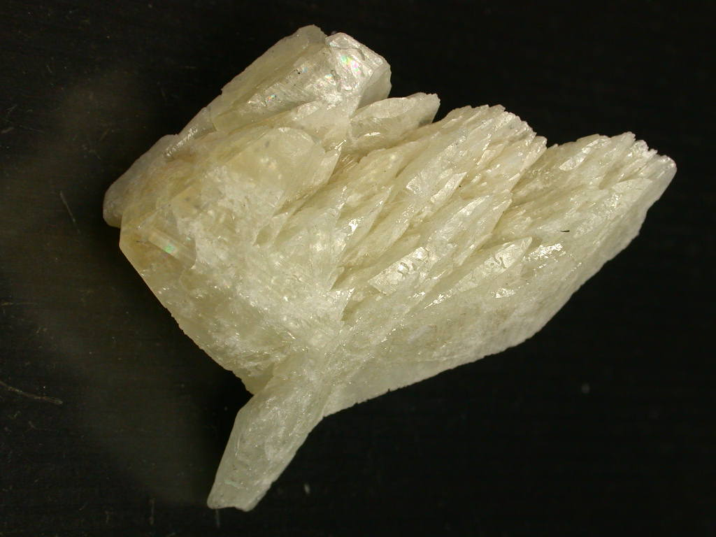 Montebrasite Locality: Fazenda Pomarolli, Linópolis, Divino das Laranjeiras, Doce valley, Minas Gerais, Brazil Original description: A 5.5 by 3.7 cms group of crystals. JSS specimen and photo.